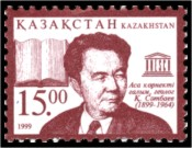 Stamp of Kazakhstan